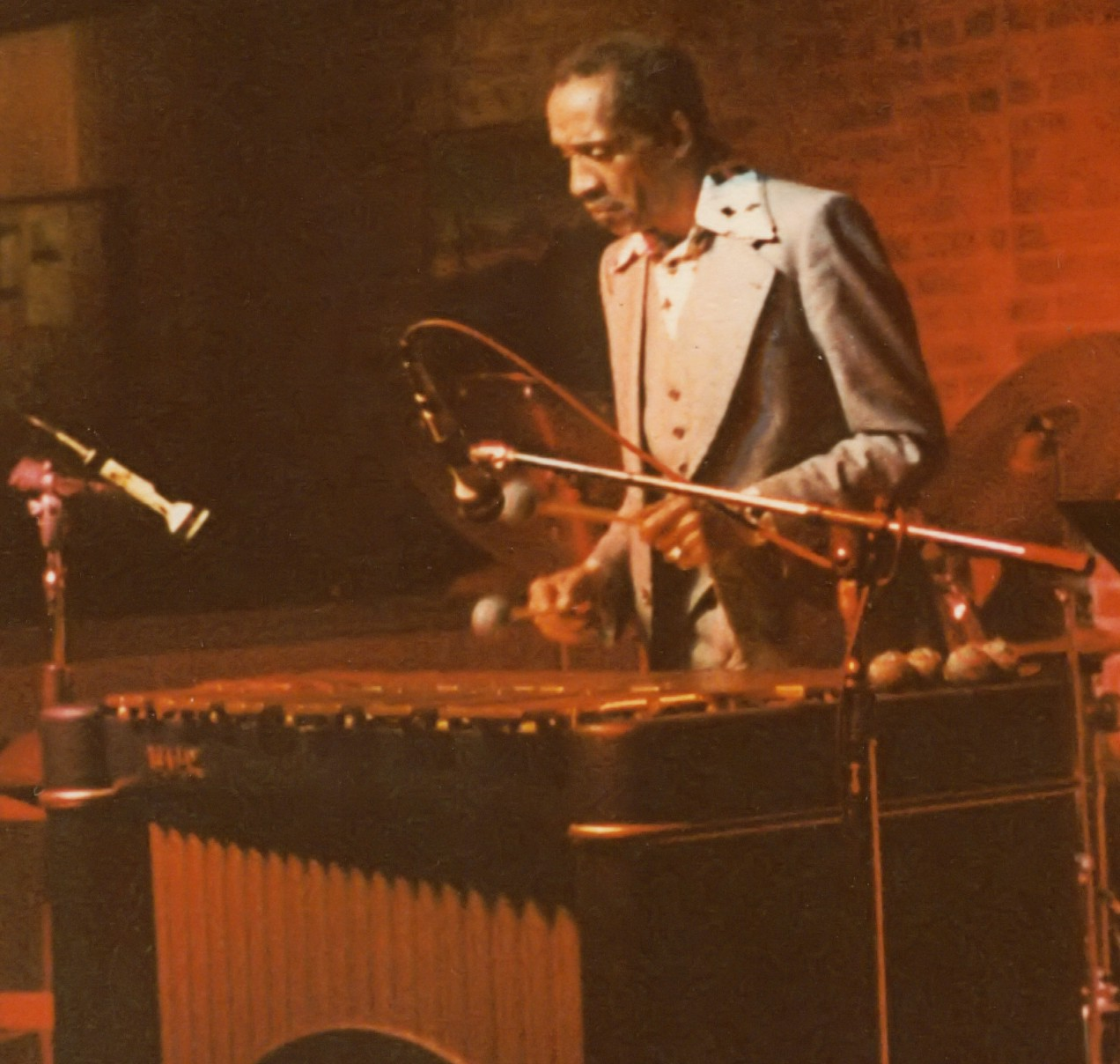 Milt Jackson at Parnell's Jazz Club, Seattle, WA, circa 1980